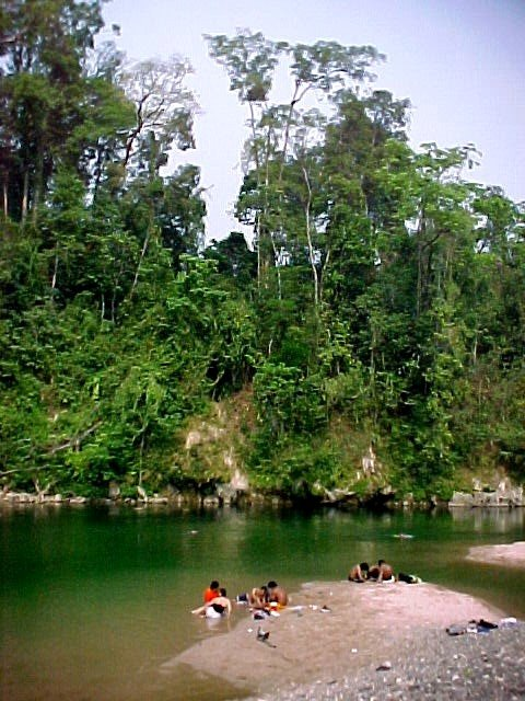 Uxpanapa Veracruz municipio